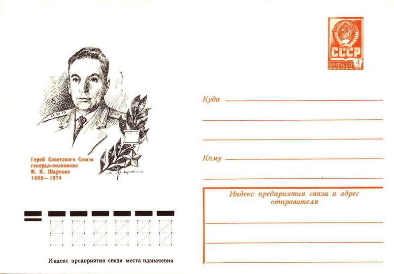 1978 Soviet postal cover featuring portrait